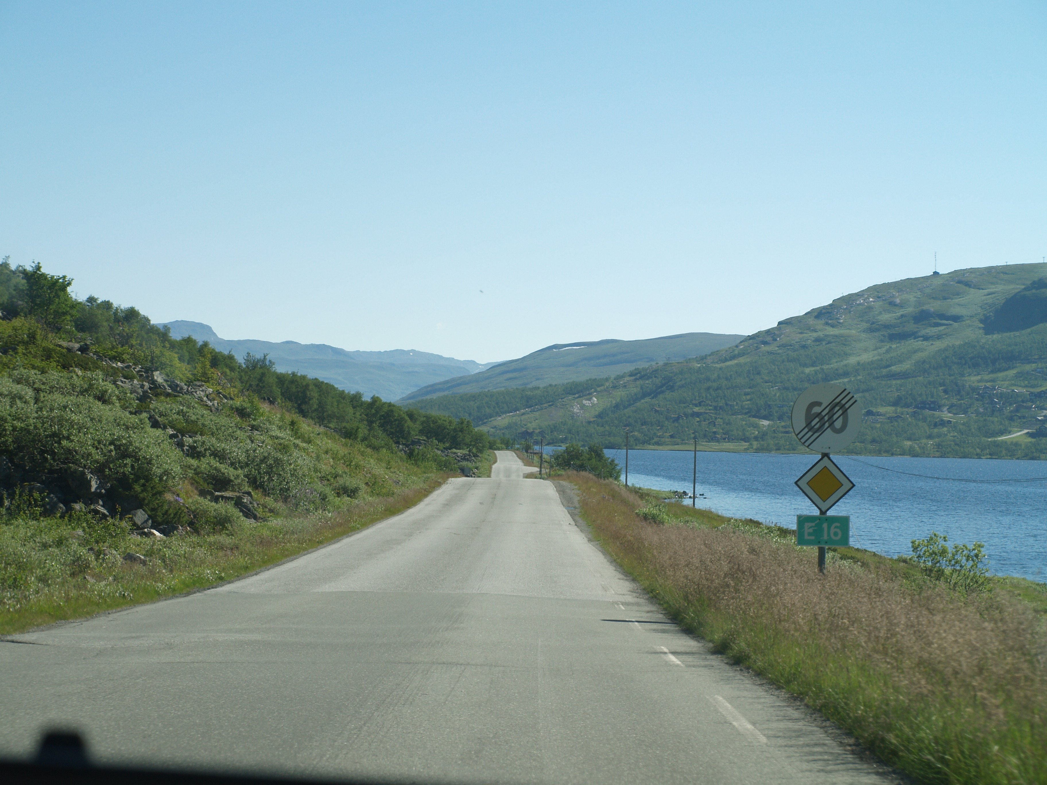 European route 16 over Filefjell in Norway